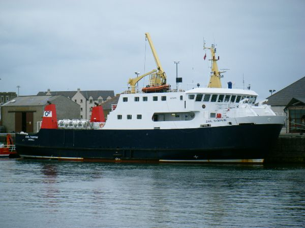 The Orkney Ferries vessel MV Earl Thorfinn alongside at Kirkwall.